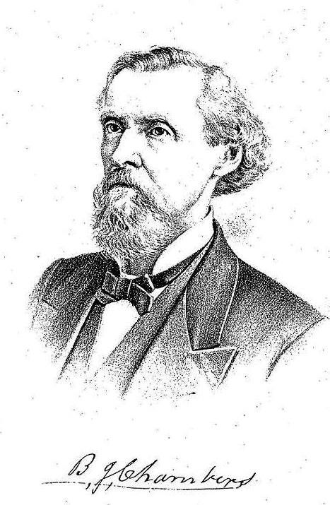 Drawing of Barzillai J. Chambers